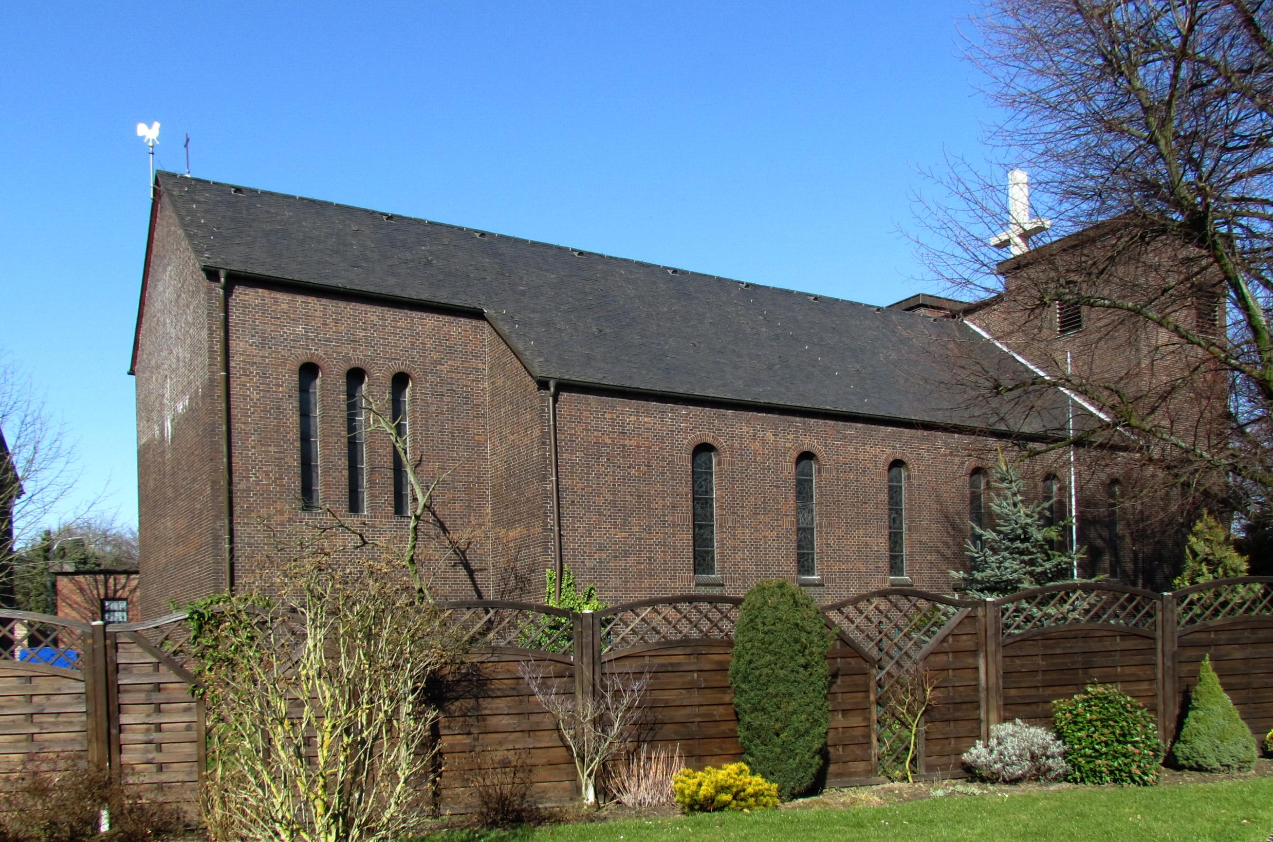 This is a photograph of an architectural monument.